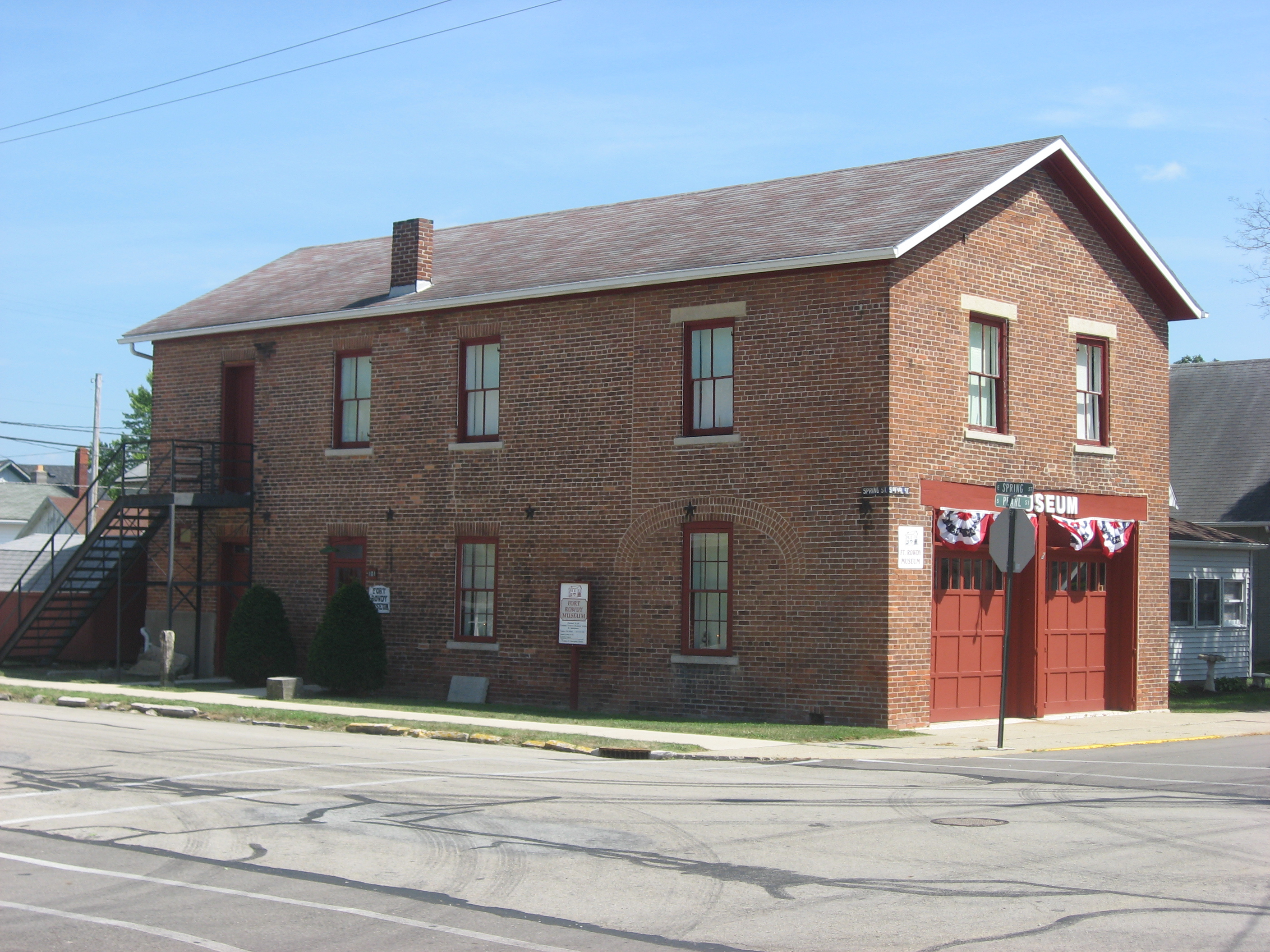 Front and northern side of the Covington Historic Government Building, located on the southeastern corner of the intersection of Spring and Pearl Streets in Covington, Ohio, United States. Built in 1849 and since converted into a local history museum, it is listed on the National Register of Historic Places. Museum website.